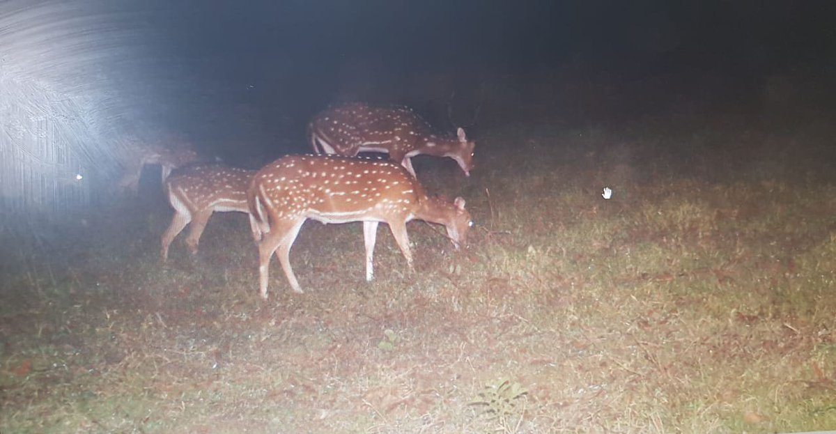 Tweet Text: Spotted deers, the life & charm of Balukhanda Sanctuary in #Puri Konark marine drive have been tressed out by Forest and #environment dept ending all speculations of their existence! Special Drone camera could able to catch some pics of their herds. FaniRestoration #CycloneFani